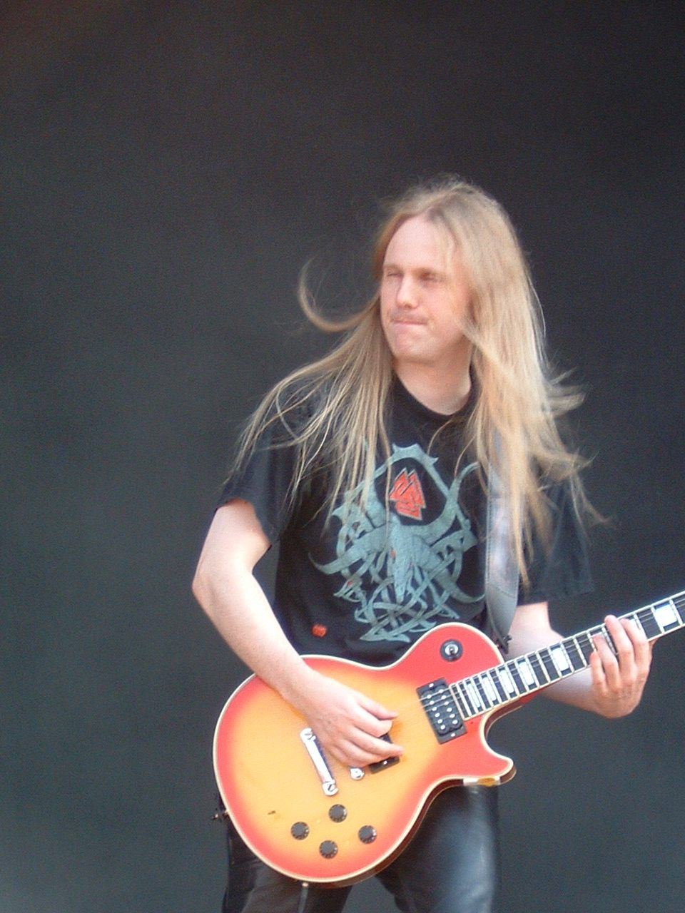 Christofer Johnsson 2004 M'era Luna Festival